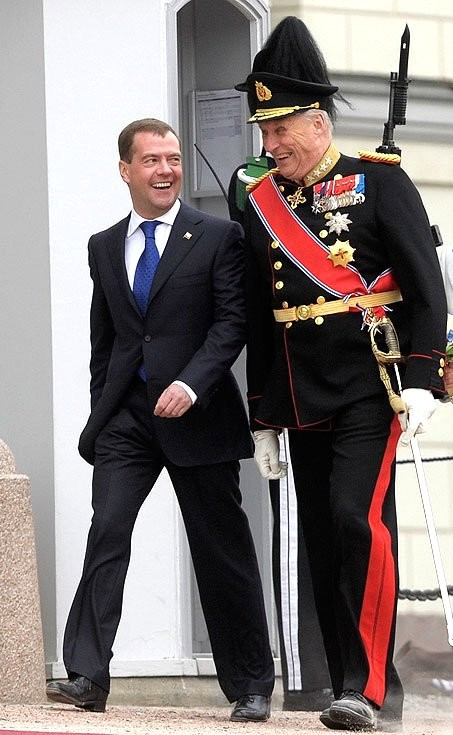 President Medvedev Norway, from the official welcoming ceremony.